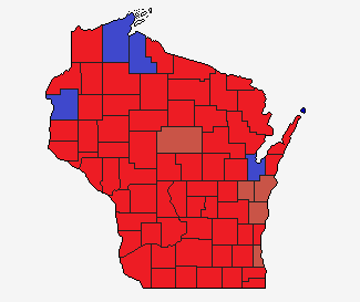 The county results for the 1918 Wisconsin gubernatorial election that was created by Jon698 in MS Paint